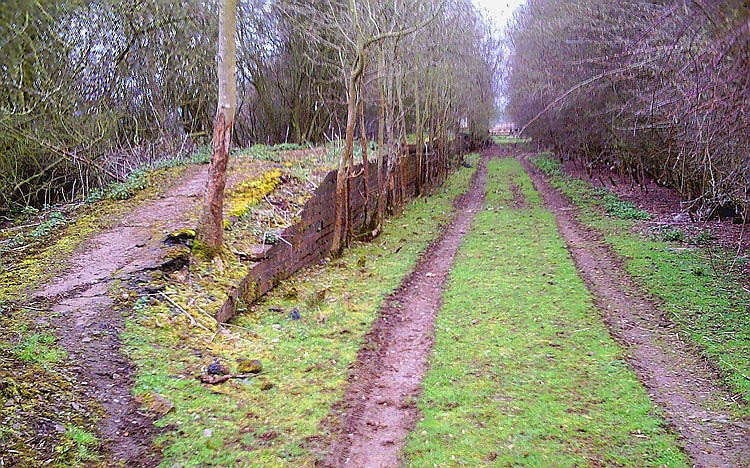 The overgrown remains of Lilbourne station in Northamptonshire, on the former LNWR line from Rugby to Market Harborough which closed in 1966, one of thousands of rural stations and lines which were closed by the Beeching Axe. On the left of the picture is the overgrown remains of the down platform (towards Rugby), the other platform is even more overgrown. The tyre tracks in the centre are where the rails once ran